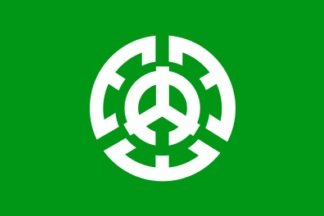 Flag of Yananouchi Nagano